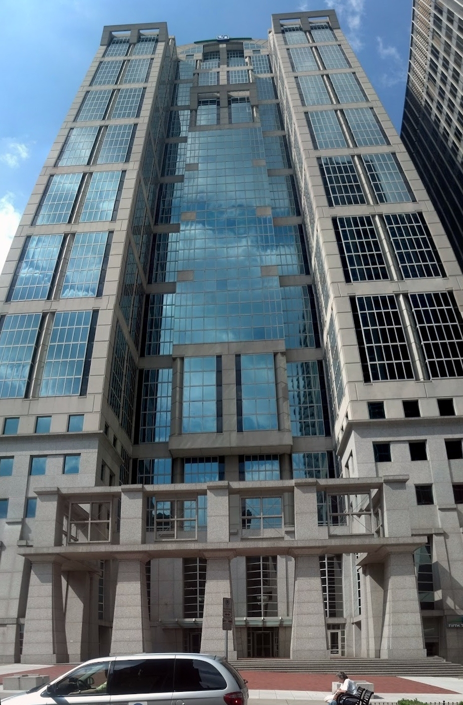 Fifth Third Center taken from Church Street in Nashville TN.